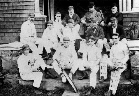 Eleven members of the Newhall family of Philadelphia outfitted for a match. Also pictured are two older members of the family.